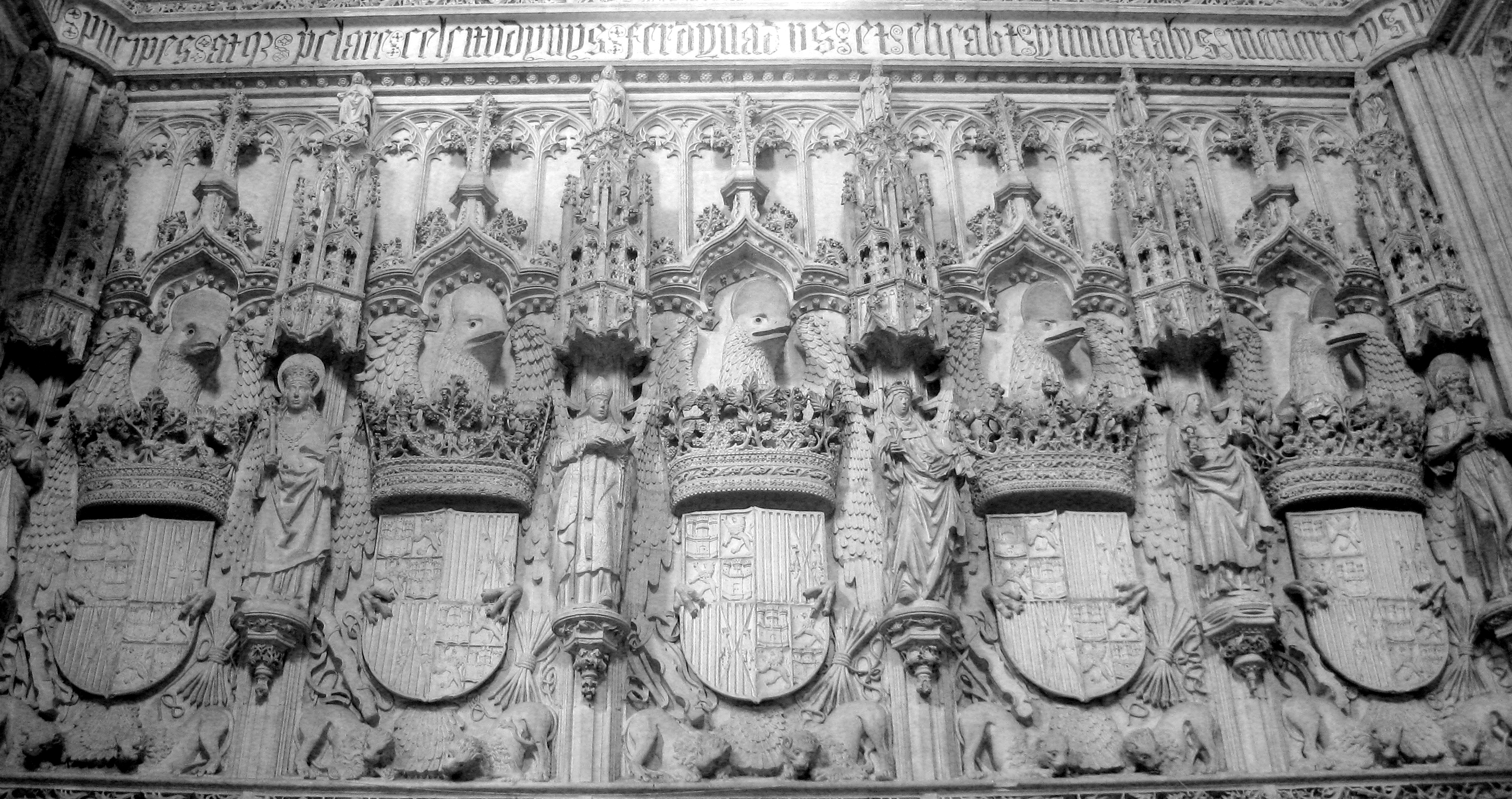 Coats of arms of the Catholic Monarcs in San Juan de los Reyes - Toledo, Spain.